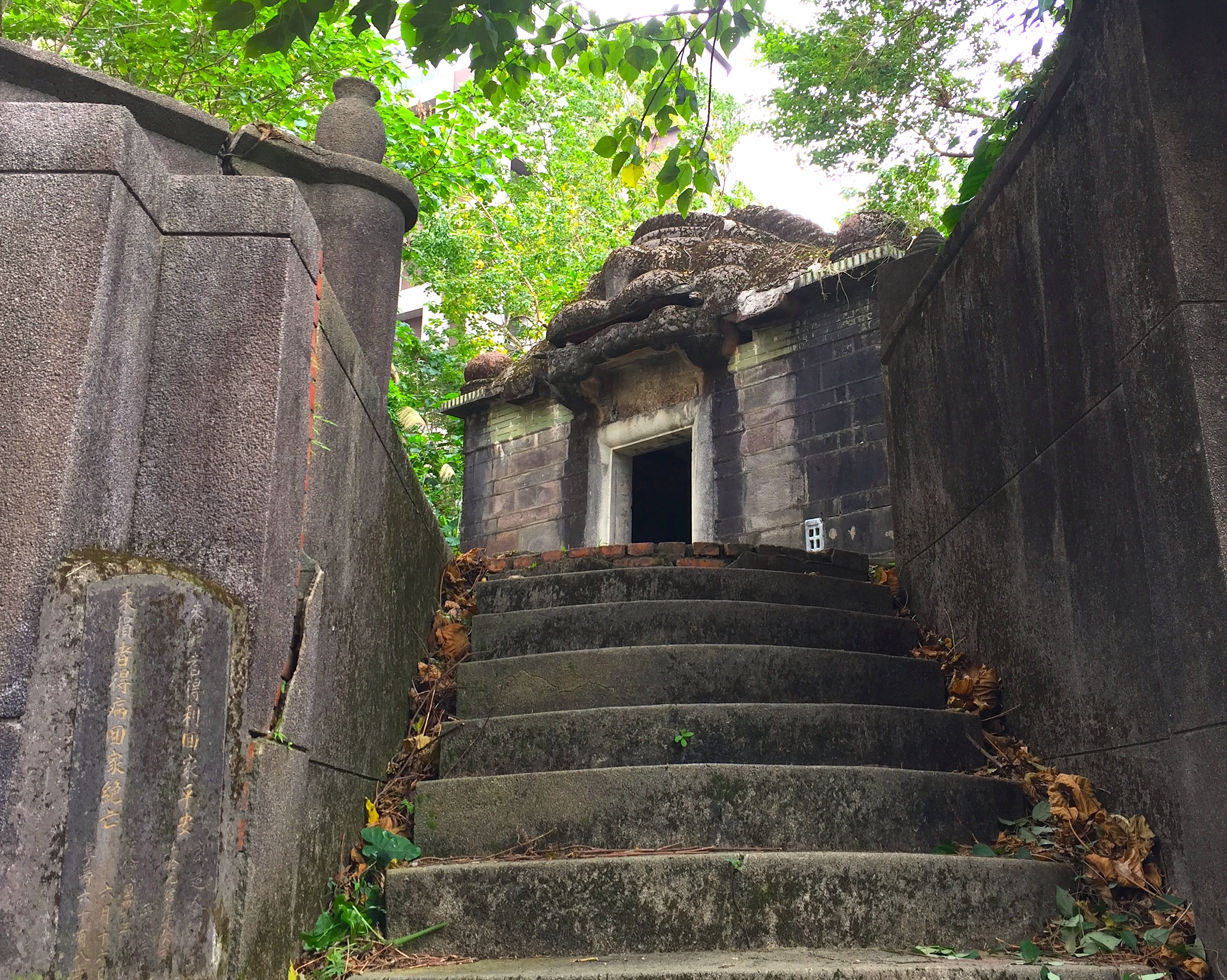 Lai Family's Tomb Tower (a recognized historical architecture in Wenshan District, Taipei, Taiwan). The stone monument by the stairs at the entrance writes "Those who come to visit will return with peace and fortune; those who come to destroy will return with disease and death".